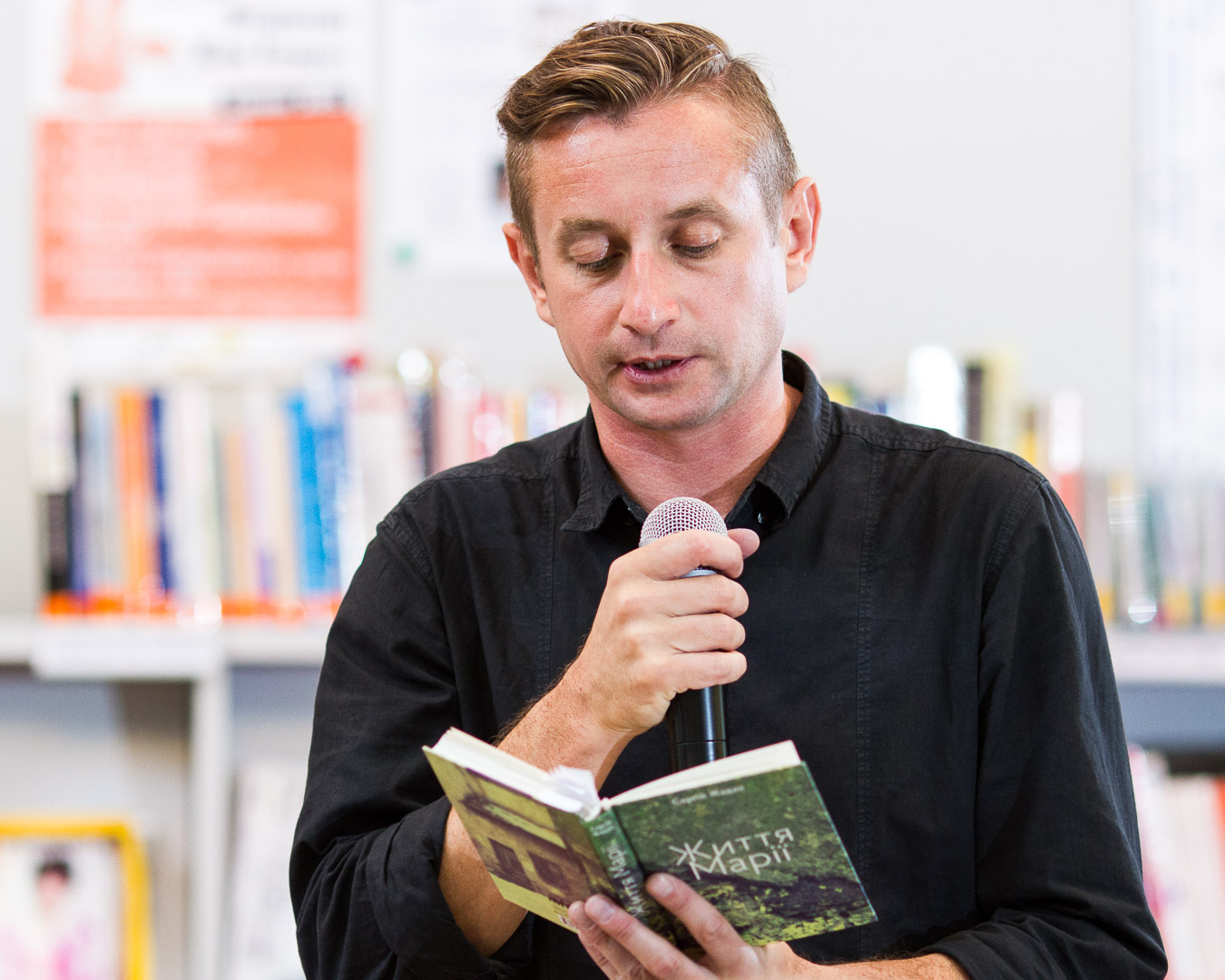 Serhiy Zhadan on Authors’ Reading Month 2015, Wrocław, Poland